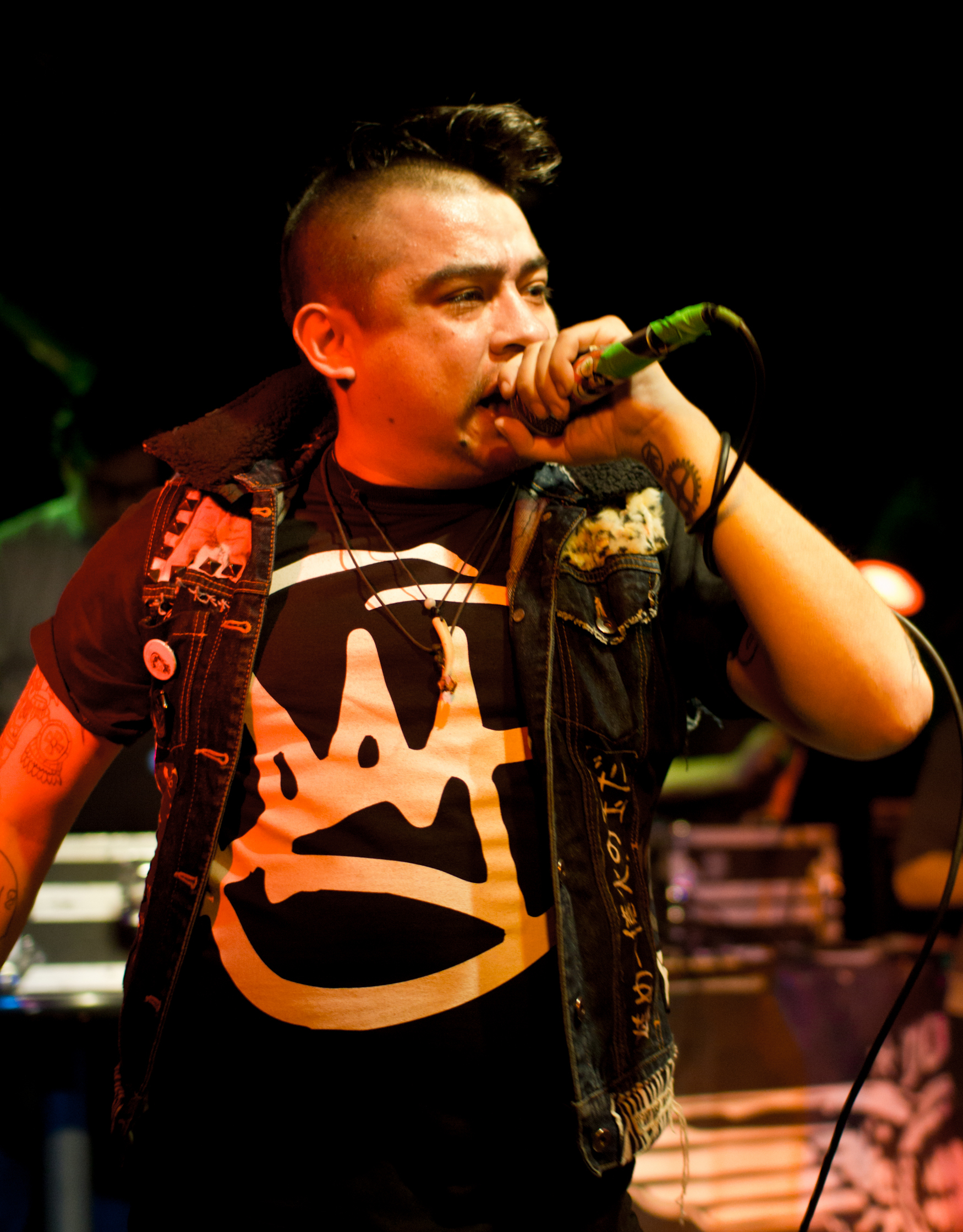 Mike Mictlan of the Doomtree crew performing at Chasers Bar and Nightclub in Scottsdale, AZ on 2/4/2012.